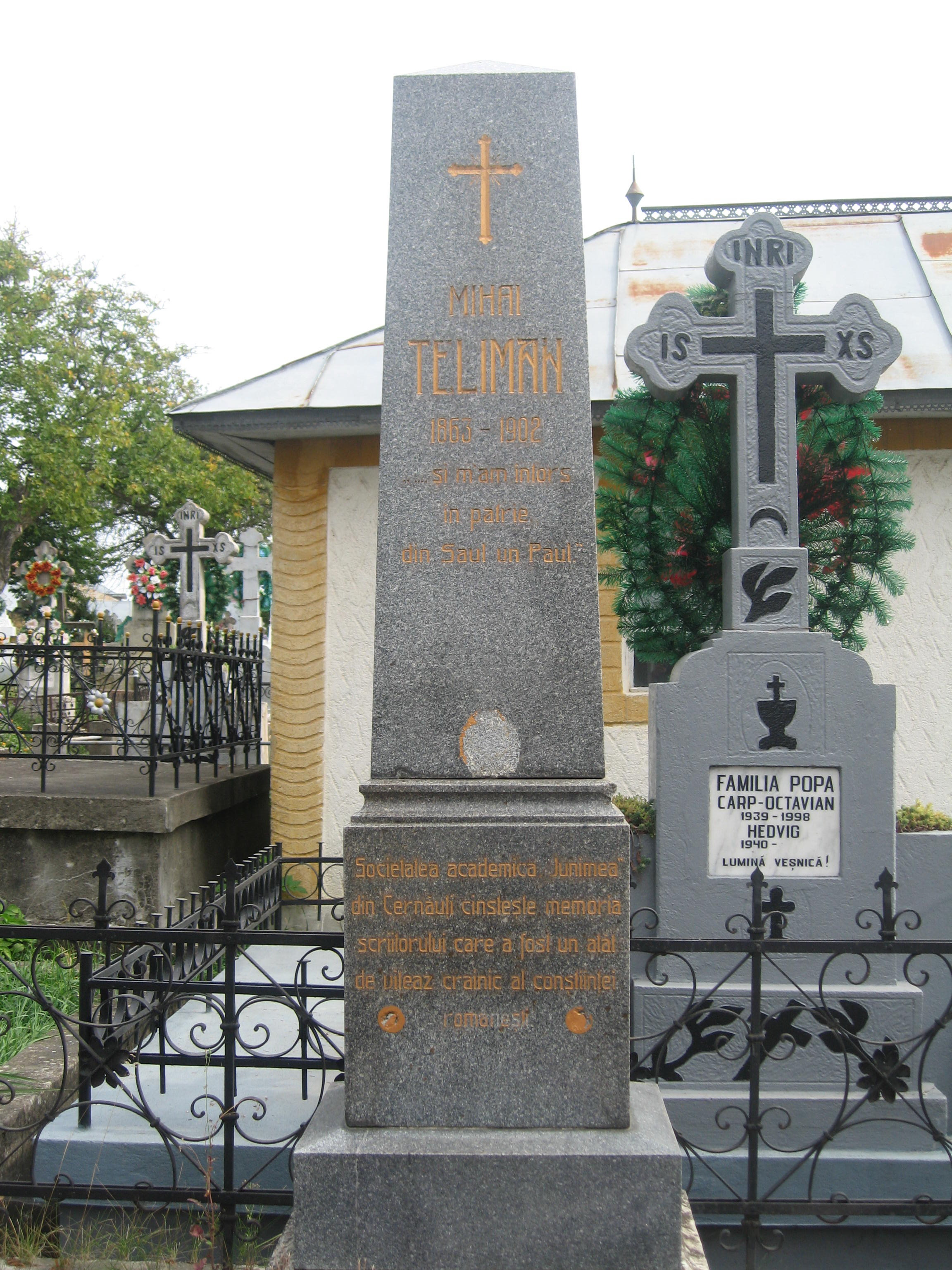 Mormântul lui Mihai Teliman din curtea bisericii de lemn din Mănăstioara-Siret